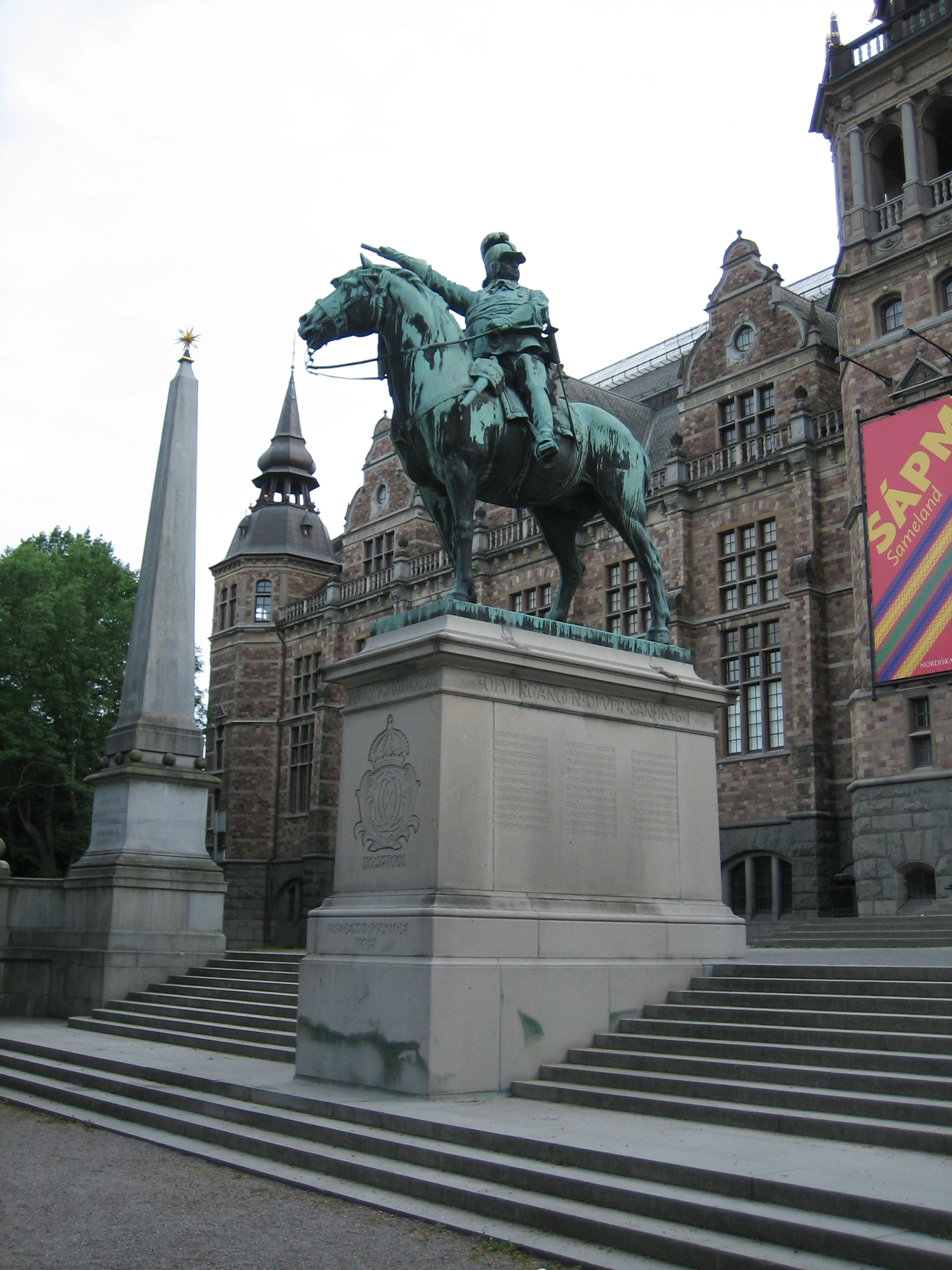 Statue of King Charles X Gustavus (Carl X Gustaf) (1622-1660), swedish king. Placed at Nordiska museet in Stockholm, Sweden.